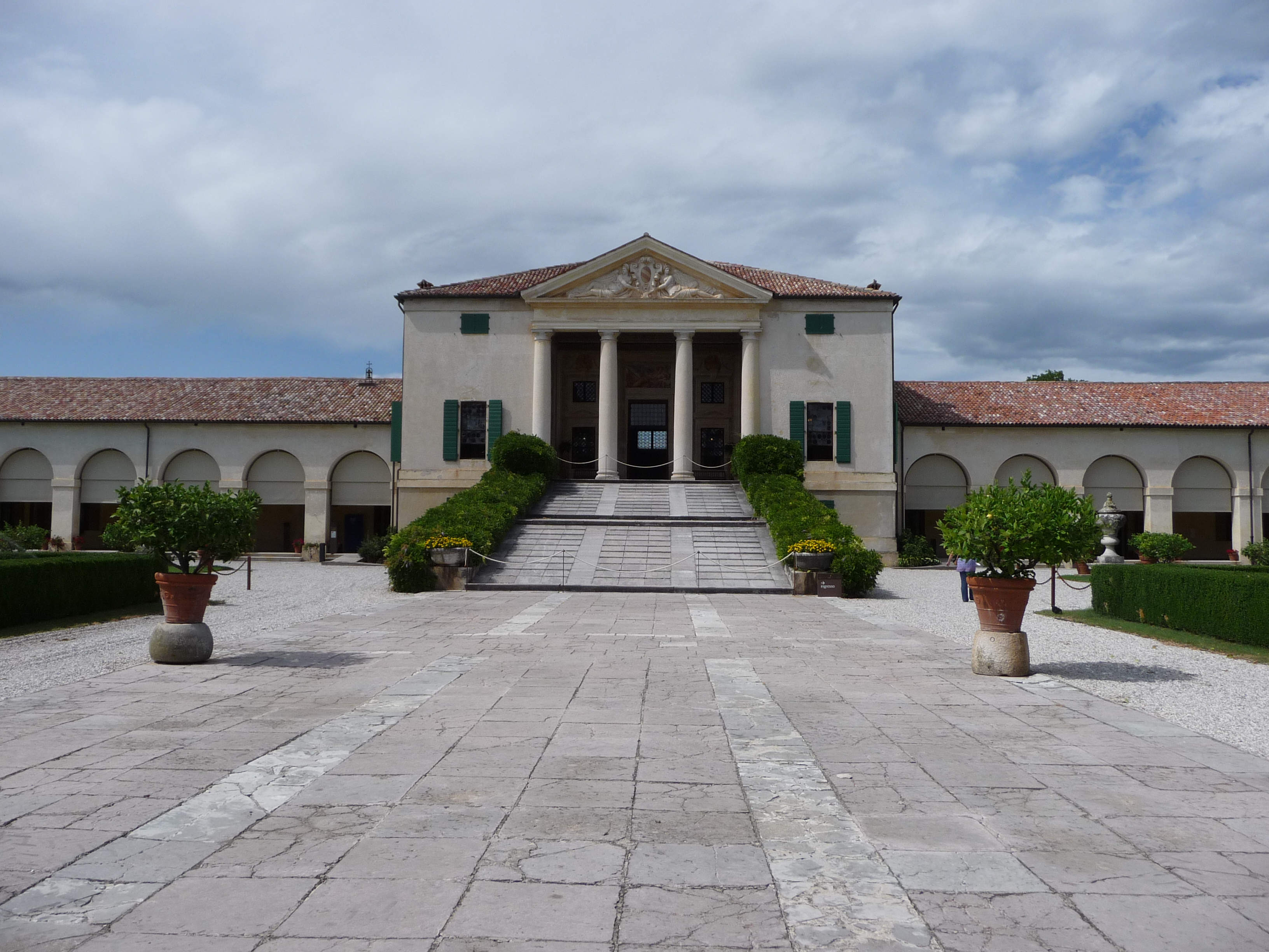 Villa Emo in Fanzolo di Vedelago, province of Treviso, Italy, designed by Andrea Palladio about 1558.